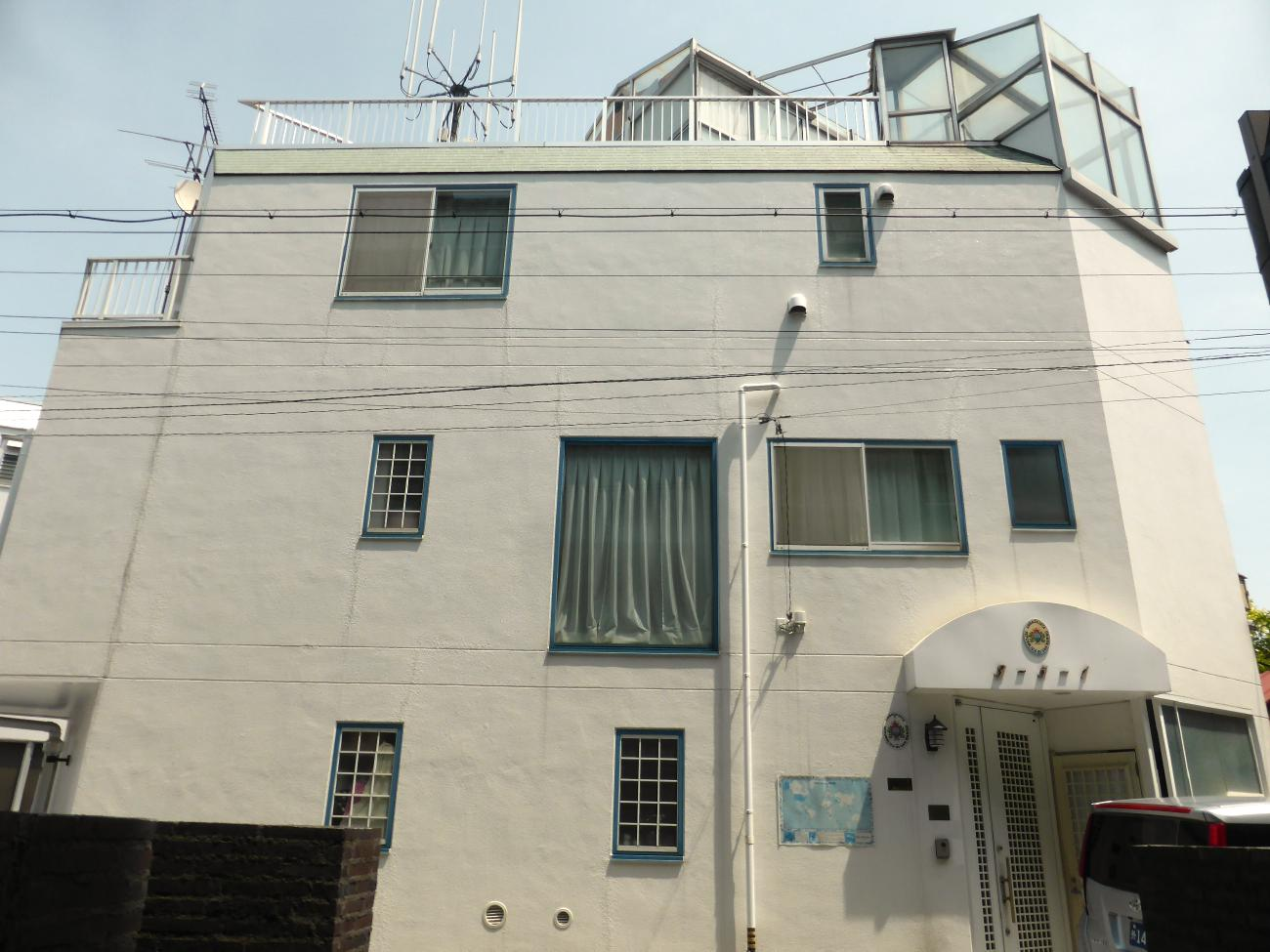 Entrance of the Embassy of San Marino in Tokyo, Japan